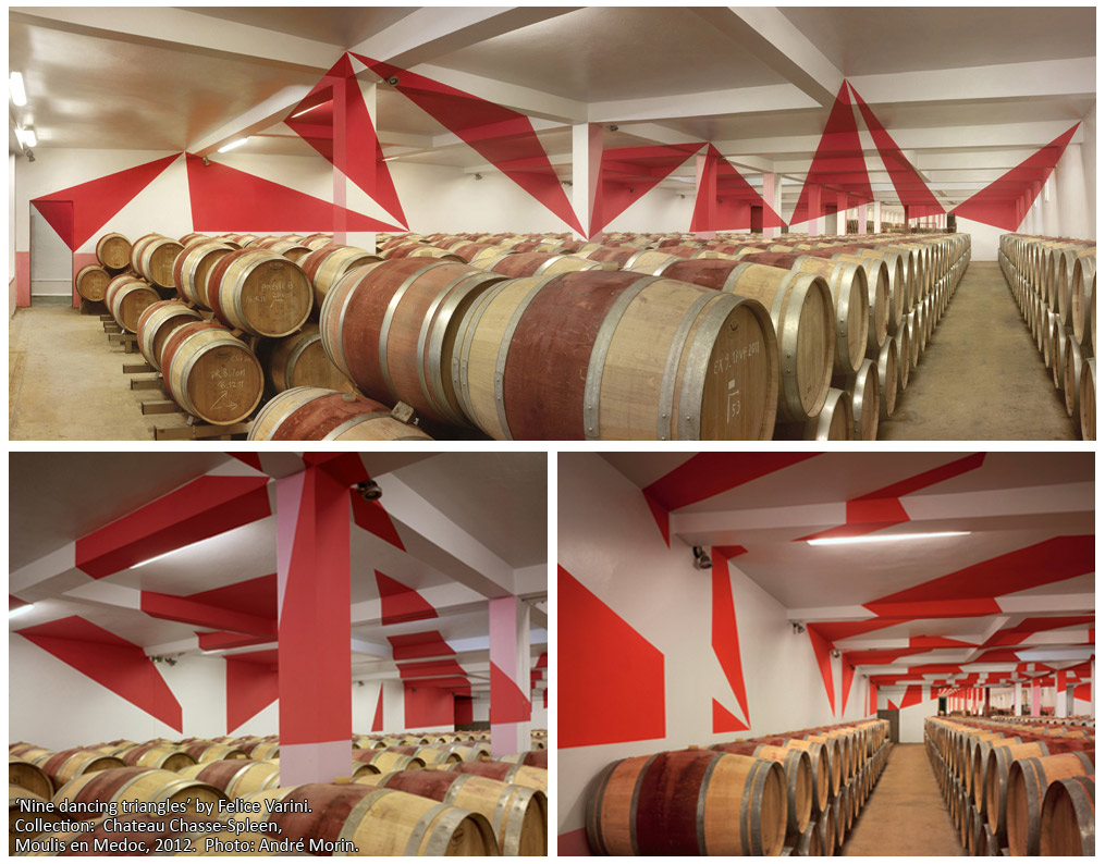 A photo of painter Felice Varini's work 'Nine dancing triangles' (French: 'Neuf triangles dansants'). The work was carried out on location Chateau Chasse-Spleen, Moulis en Medoc in France, 2012. Photos by André Morin. Photocollage by Gil Dekel. Felice Varini Other information If using this image then credit the authors, and link to image's